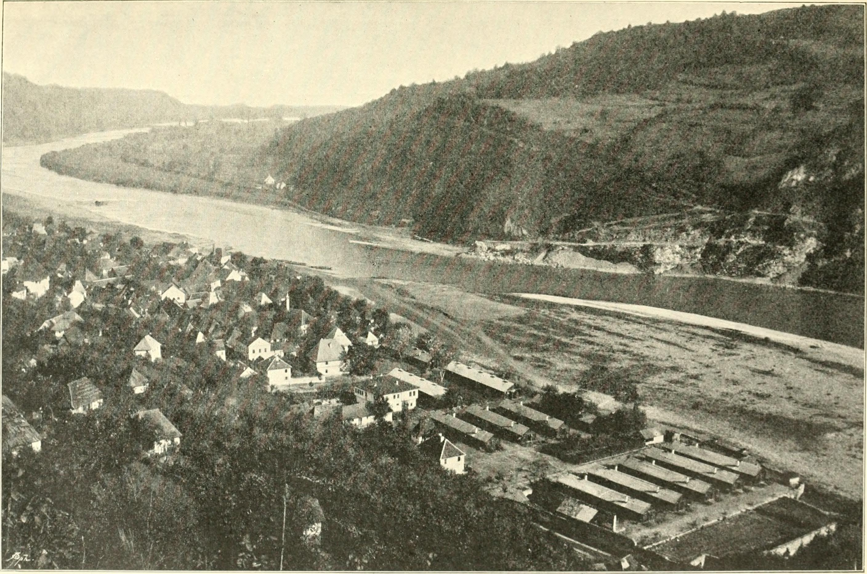 Title: Durch Bosnien und die Herzegovina kreuz und quer; Wanderungen Year: 1897 (1890s) Authors: Renner, Heinrich Subjects: Bosnia and Hercegovina -- Description and travel Publisher: Berlin D. Reimer (E. Vohsen) Text Appearing Before Image: eidenUtern des Flusses; überall Grün, überall Wald und Obstgärten. Da plötzlichbei einer Biegung des Weges öffnet sich ein Blick auf unser heutigesZiel. Auf hohem Felsen liegt die alte Feste Zwornik, drohend nachdem serbischen Ufer. Und dort ganz friedlich Klein-Zwornik und Sakkarinmitten von Gärten mit drei Moscheen, den einzigen (ausser Belgrad)im eigentlichen Königreich Serbien. Hohe Thore führen durch dieFestung in die wirkliche Stadt Zwornik, die nach einem Brande fast ganzneu erbaut ist. Vor dem »Hotel zur Stadt Wien«, einem wahren Pracht-bau, halten wir. Bald befinden wir uns in mit Teppichen belegten Räumen,wie sie die europäischen Grossstädte nicht besser bieten, wir sitzen dannin einer Restauration ganz wie in Wien, deutsch ist die Bedienung, undwenn nicht ein Blick auf die Strasse uns zeigen würde, dass wir inBosnien sind, konnten wir nicht glauben, uns in einer alten türkischenFestung zu befinden, die einstmals kaum die bescheidenste Unterkunft bot. — 22S Text Appearing After Image: '